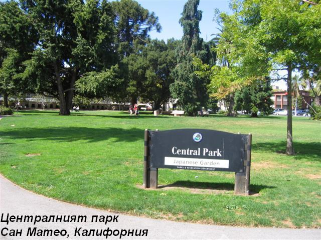 Entrance to Central park, San Mateo, California.